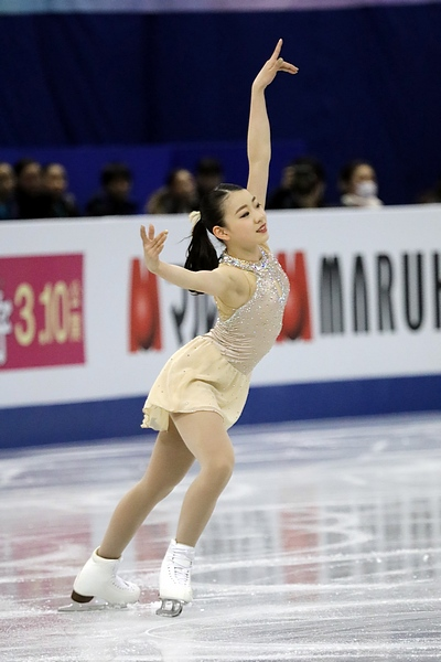 Photos – Grand Prix Final 2017 – Juniors – Ladies (Rika KIHIRA JPN – 4th Place)